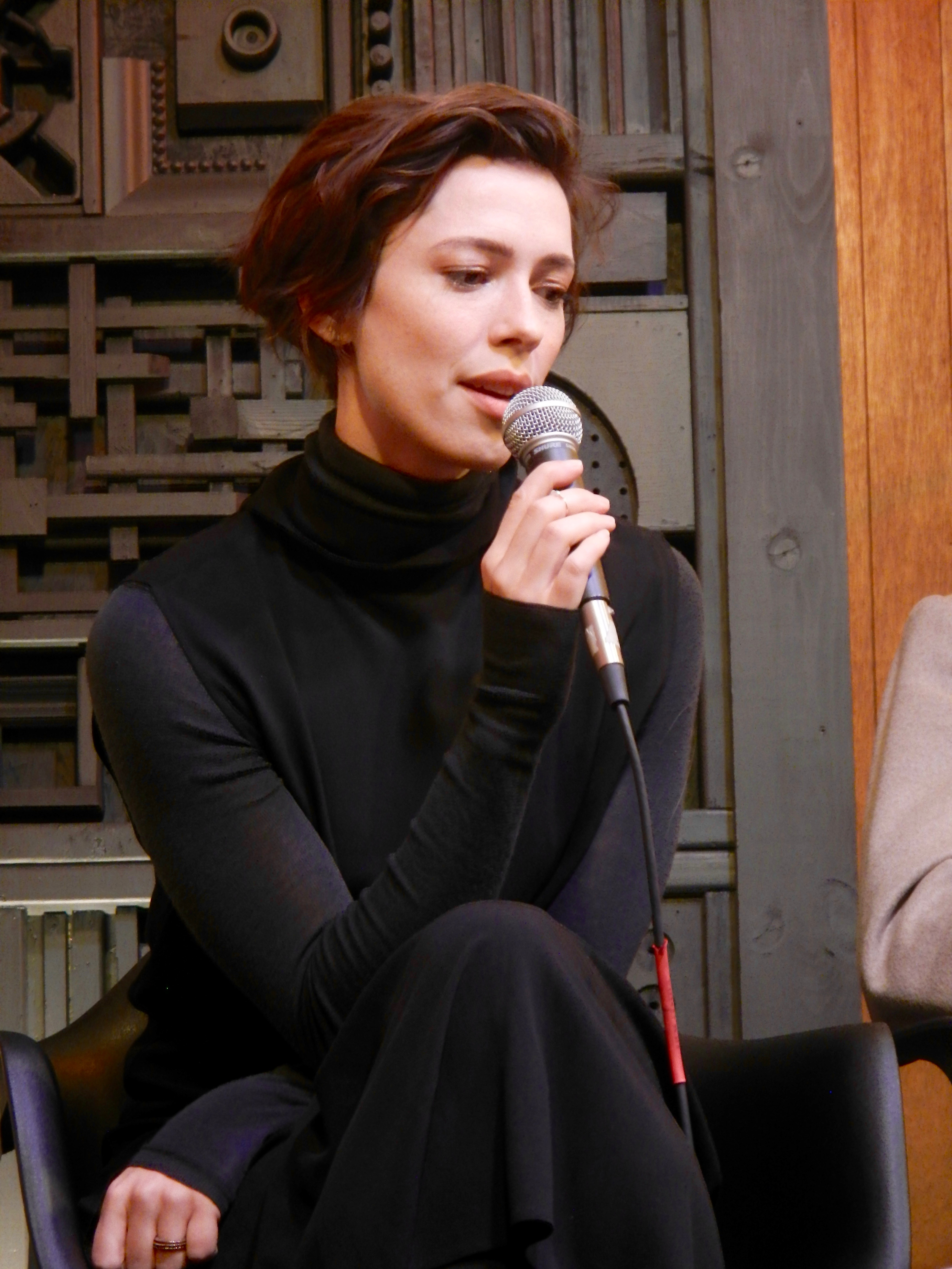 Cinema Cafe, 2016 Sundance Film Festival, Park City UT